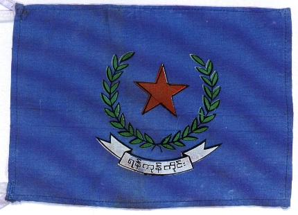 Flag of Yangon Division